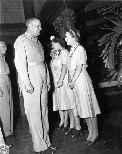 Lieutenant General W. D. Styer, Commanding General of Army Forces, Western Pacific (foreground, left) converses with Women's Army Corps (WAC) Colonel Westray Battle Boyce (right) at a reception in her honor. Colonel Boyce was touring WAC locations in the Pacific Theatre. Others in the background are unidentified.